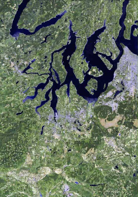 Olympia, Washington, from Space. The raw satellite imagery shown in these images was obtain from NASA and/or the US Geological Survey. Post-processing and production by